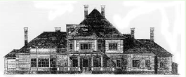 torleyhome